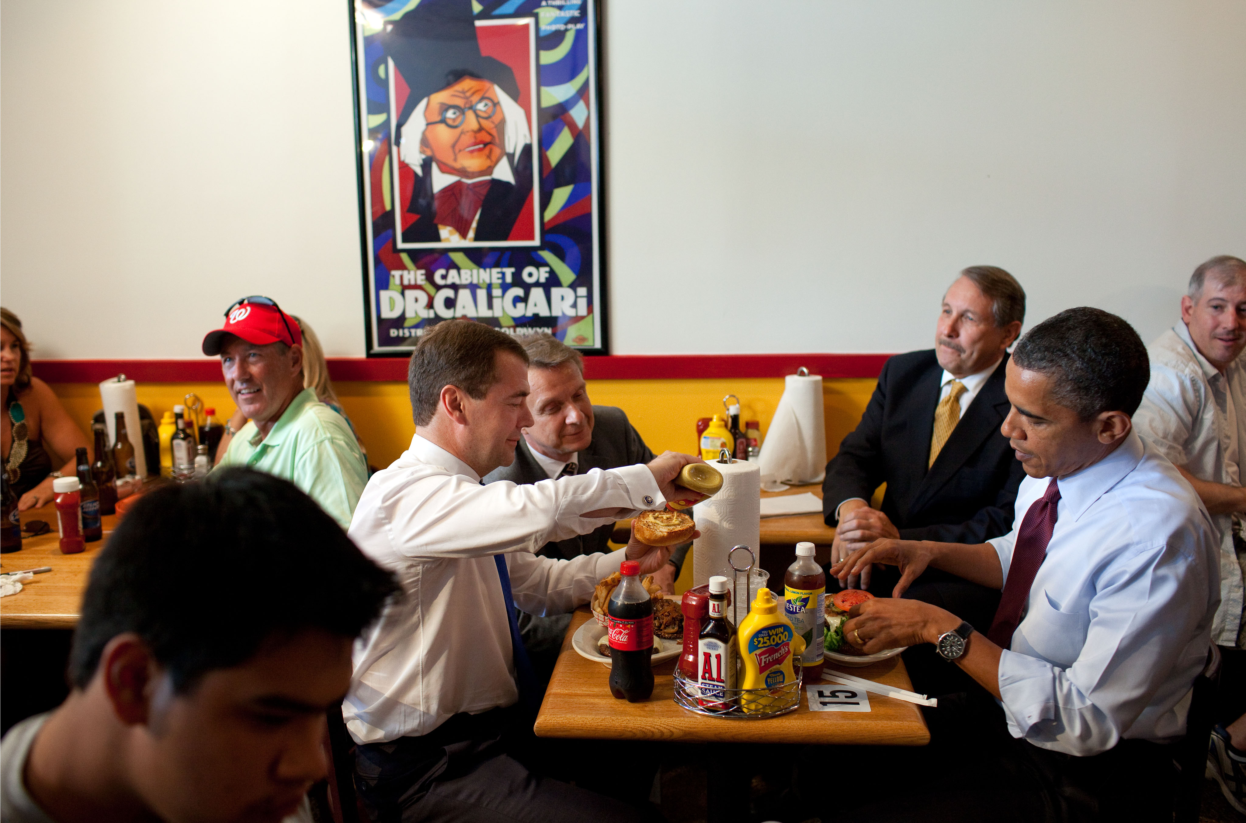 President Barack Obama and Russian President Dmitry Medvedev have lunch at Ray's Hell Burger in Arlington, Va., June 24, 2010.